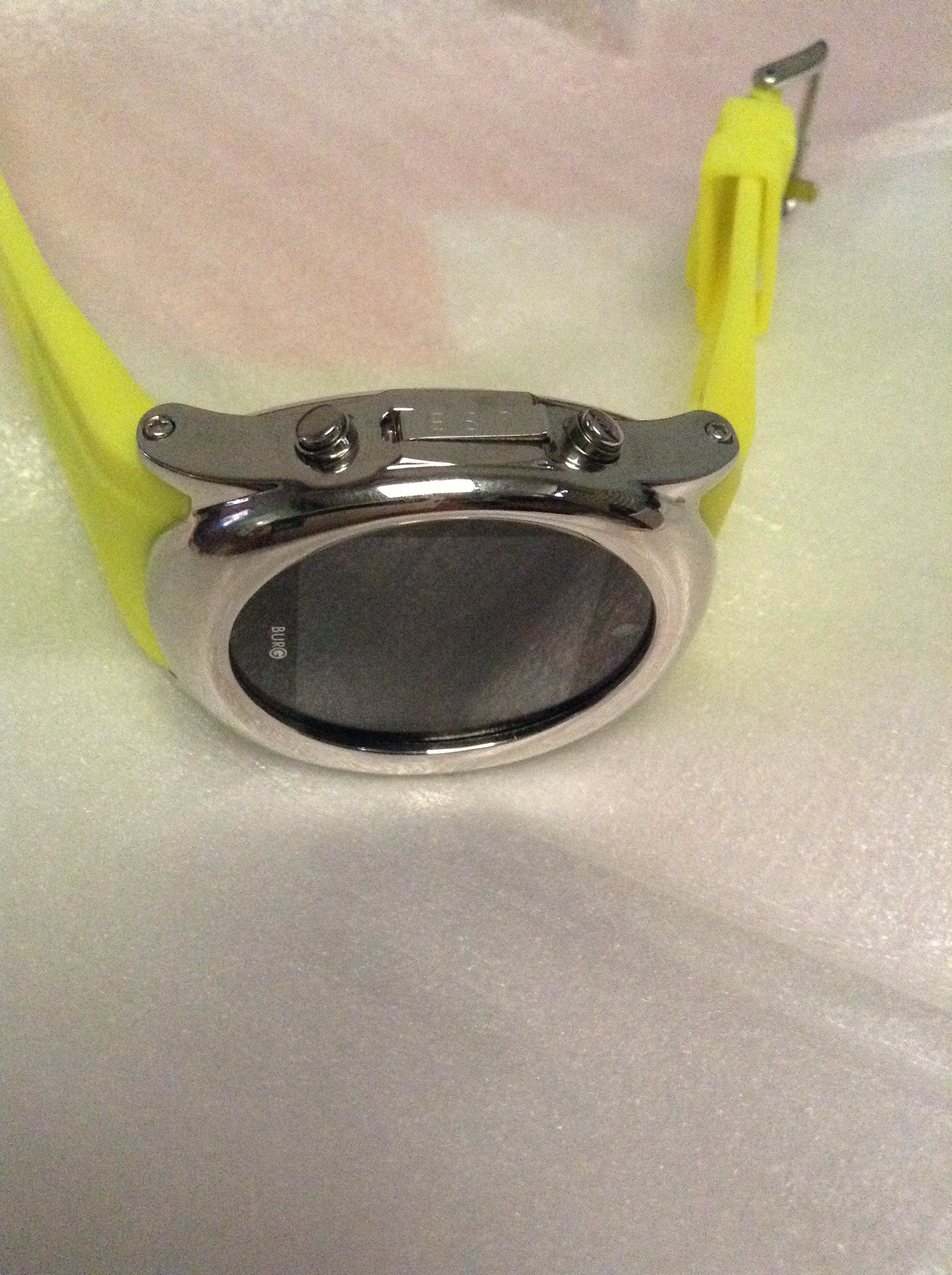 Watch phone burg